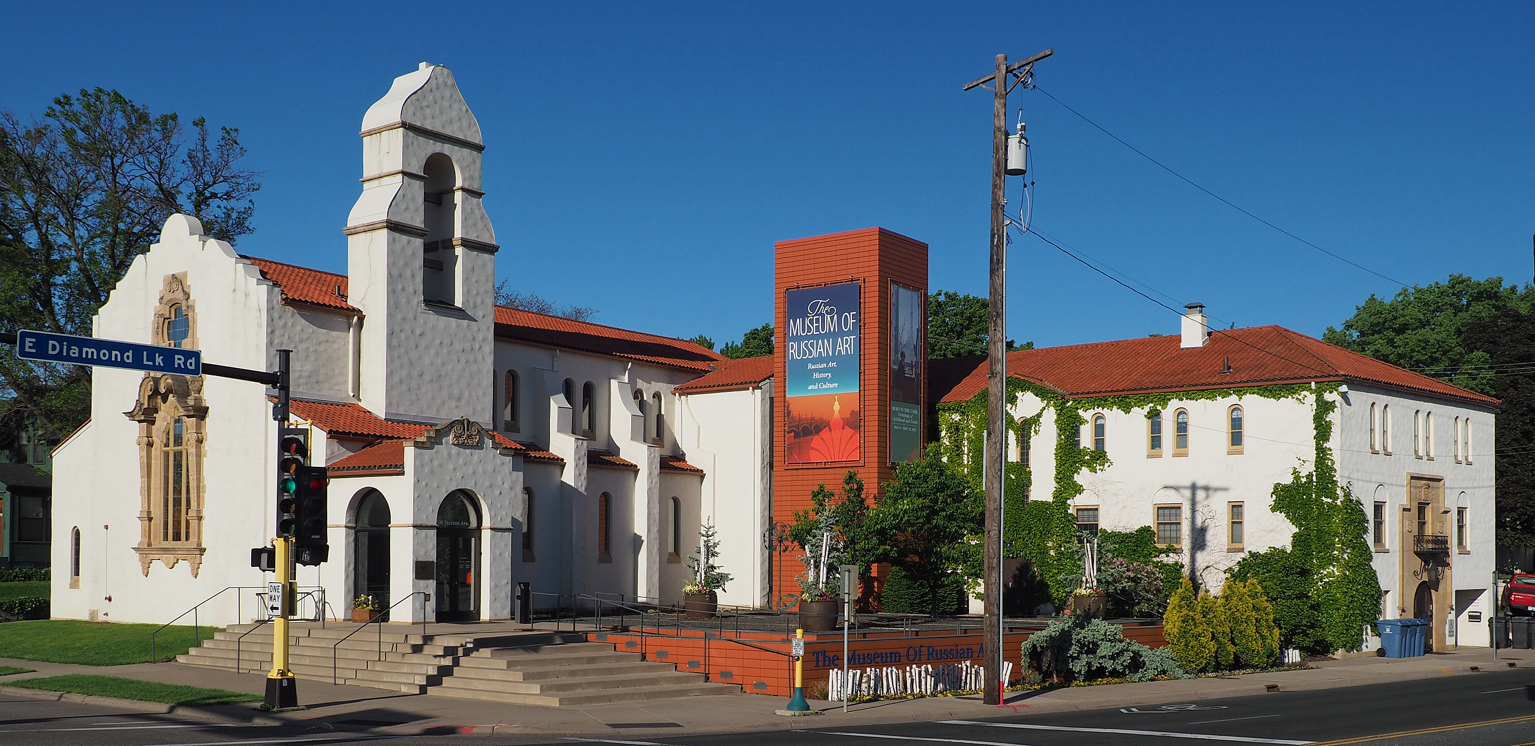 The Museum of Russian Art, 5500 Stevens Ave S, Minneapolis, Minnesota, USA. Viewed from the northeast.